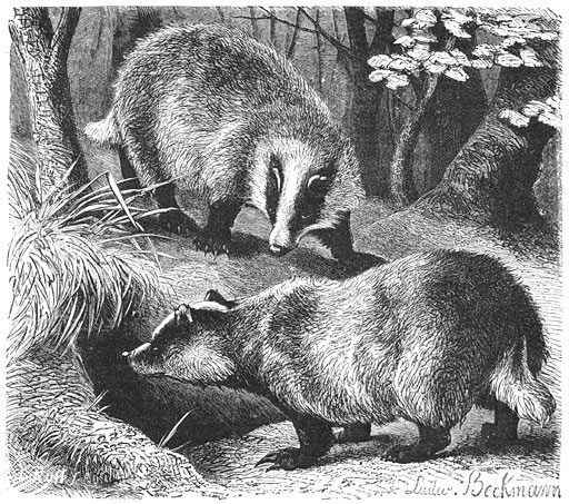 Das (Melus taxus). Currently: Meles meles